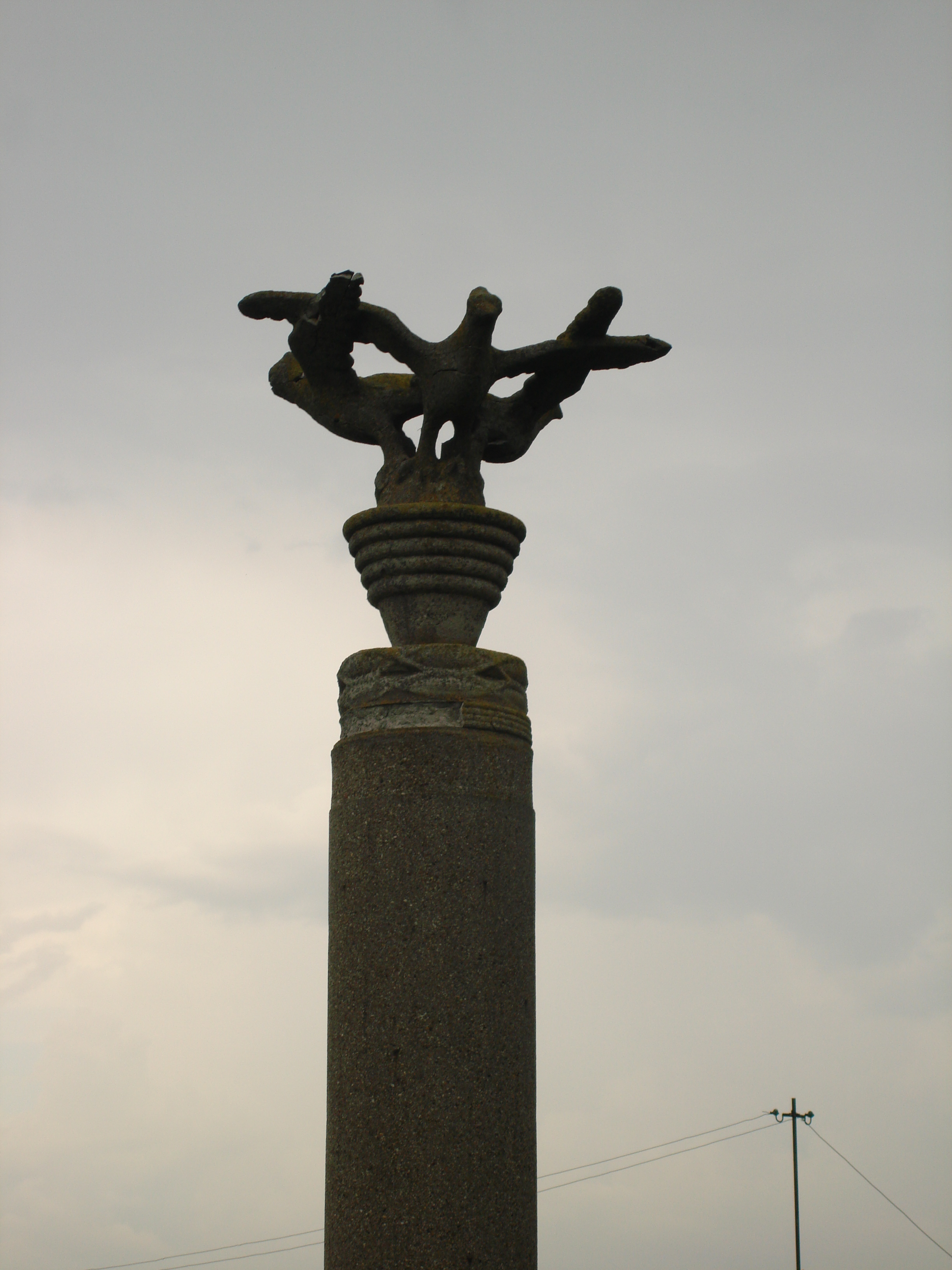 "The Column of Three Eagles" was erected in the III prisoner field in May 1943. It was made by Polish prisoners according to Albin Maria Boniecki’s design. The pretext for erecting the sculpture was the planned visit by the International Red Cross. The camp management wanted to create the impression of order and attractiveness and thus commanded the prisoners to decorate the fields."